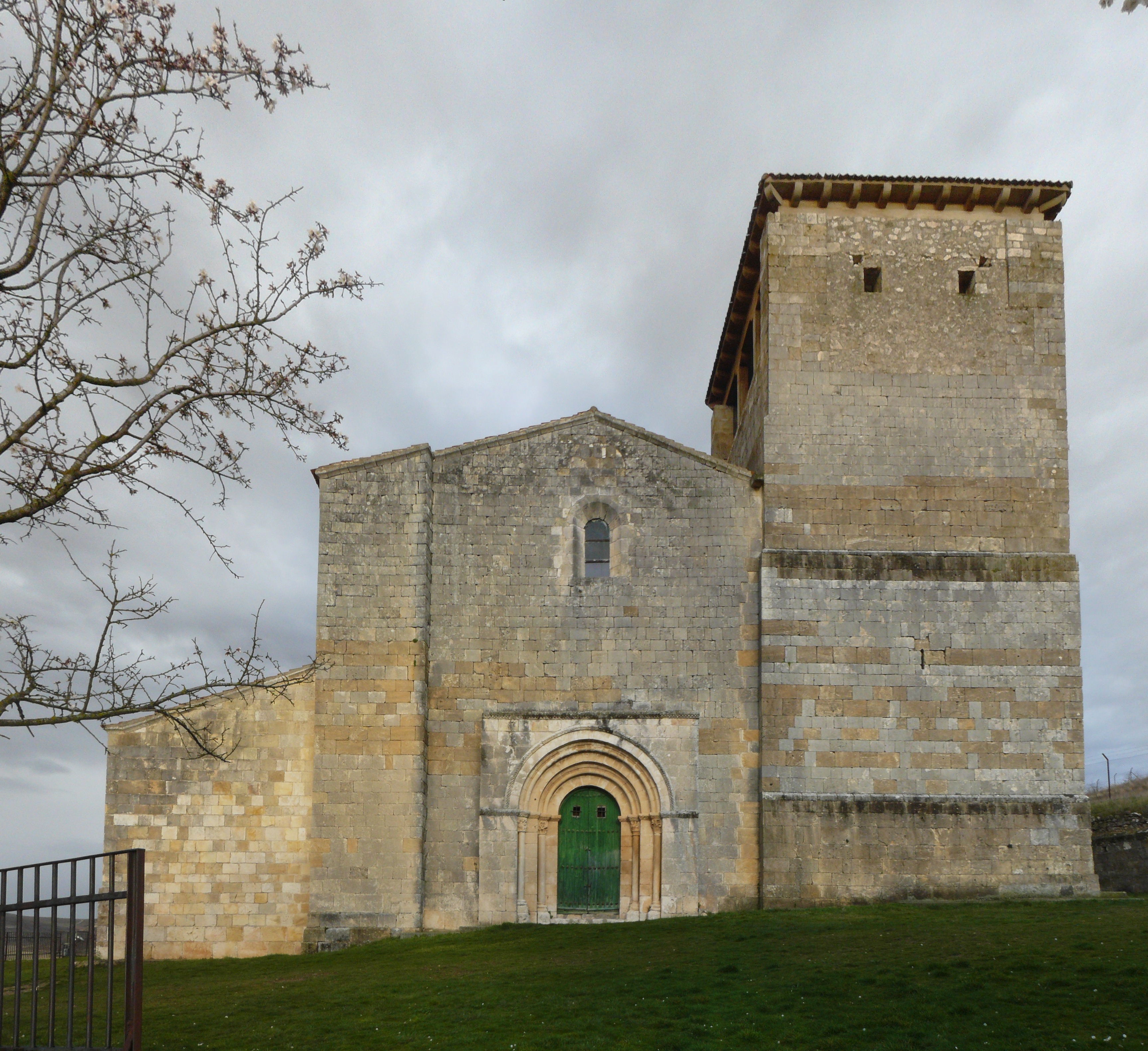 Church of San Miguel, Fuentidueña (province of Segovia, Spain).